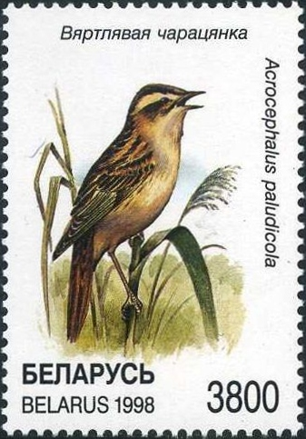 Stamp of Belarus